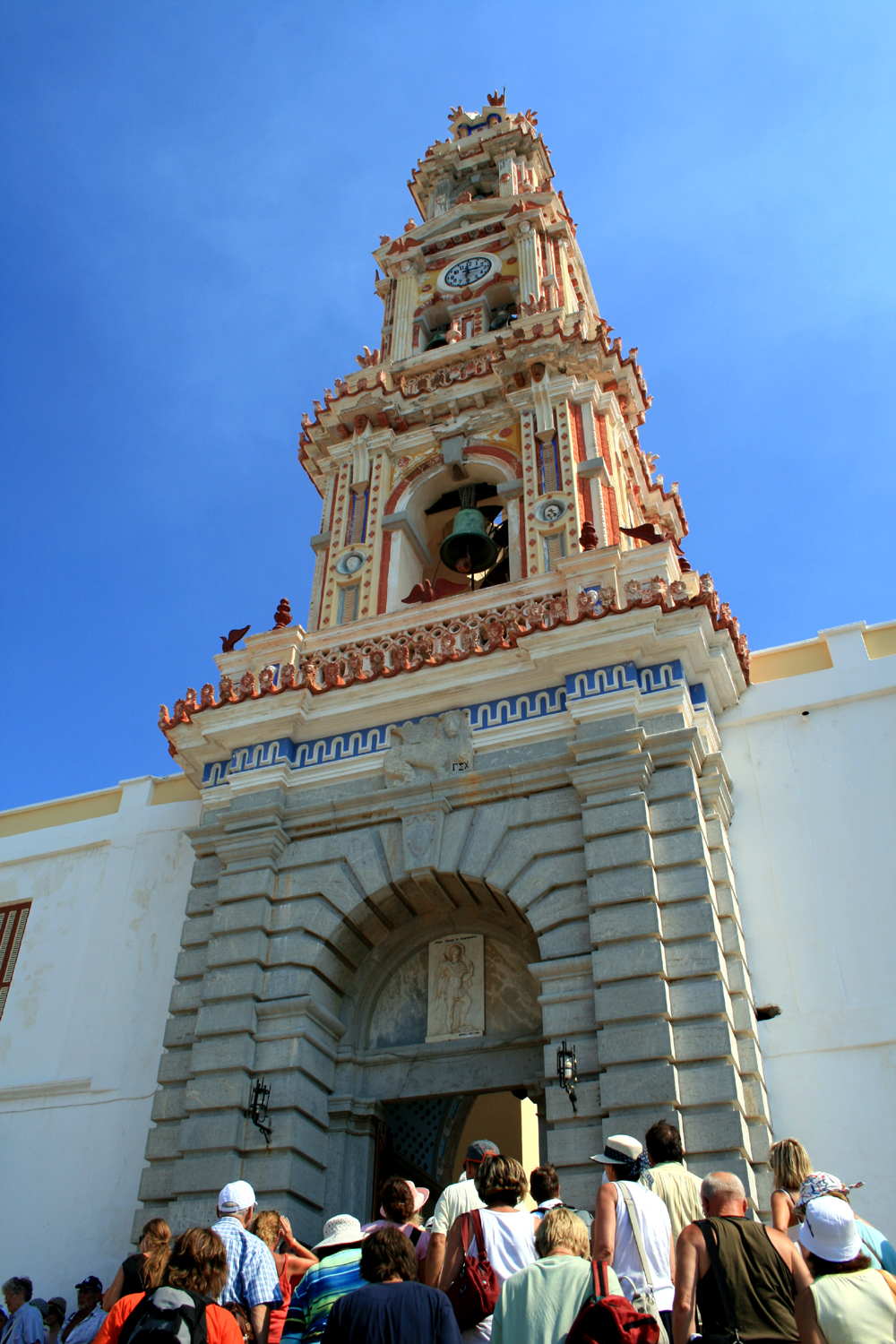 Monastery Panormitis on Simi island, Greece klášter Panormitis na ostrově Simi, Řecko photo August 2007 Author= Karelj